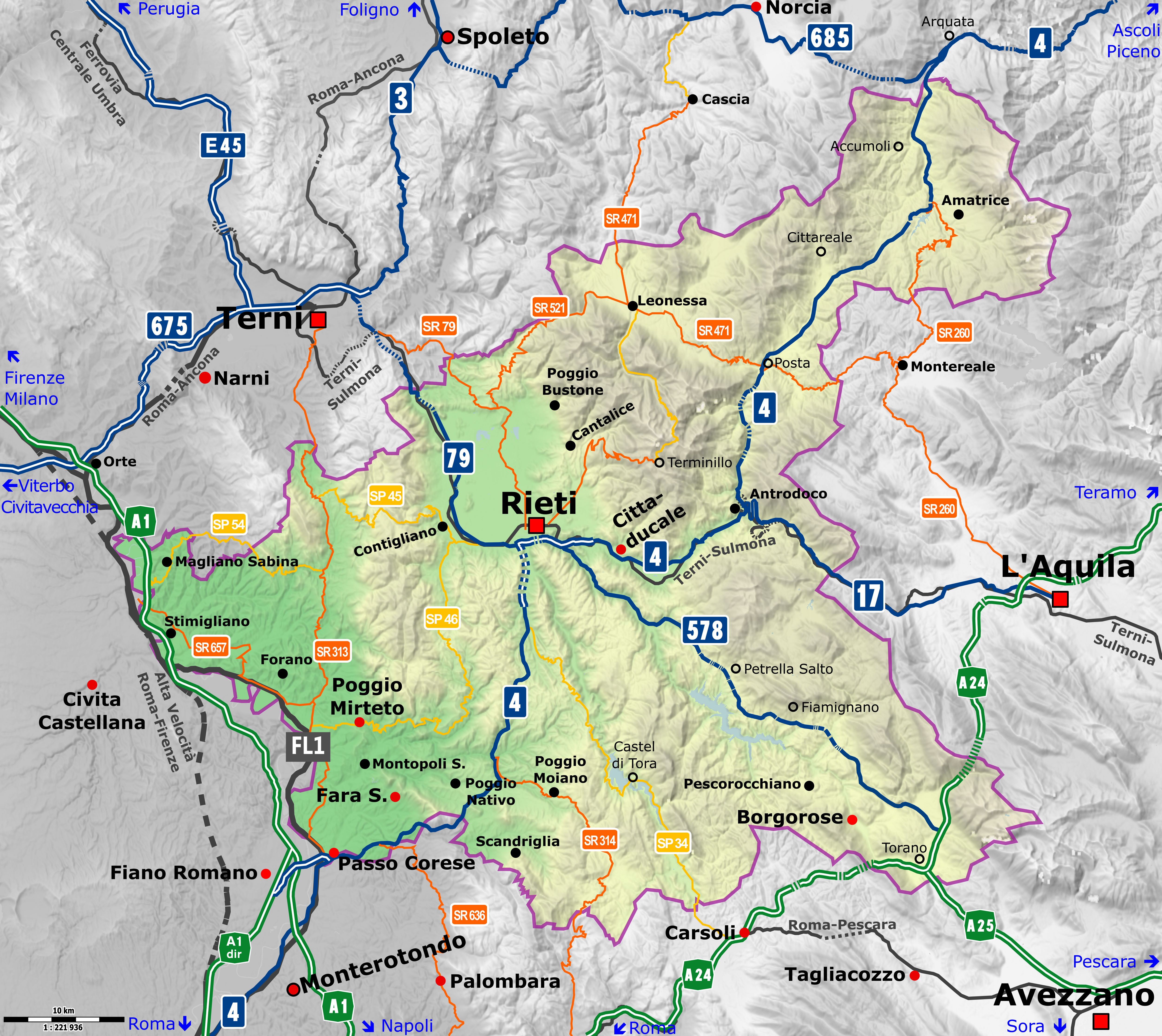 Transport map of the province of Rieti (Lazio, Italy) Ferrovia a binario unico / Single track railway Ferrovia a doppio binario / Double track railway Autostrada / Highway Strada statale / State road Strada regionale / Regional road Strada provinciale / Provincial road Galleria / Tunnel Strada a doppia carreggiata / Double carriageway road